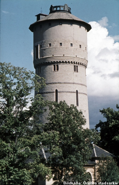 The South Water Tower in Örebro, Sweden